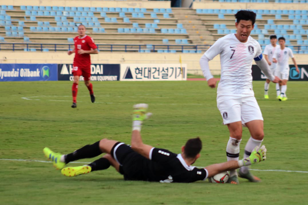 Lebanon v South Korea at the 2022 FIFA World Cup qualifiers.